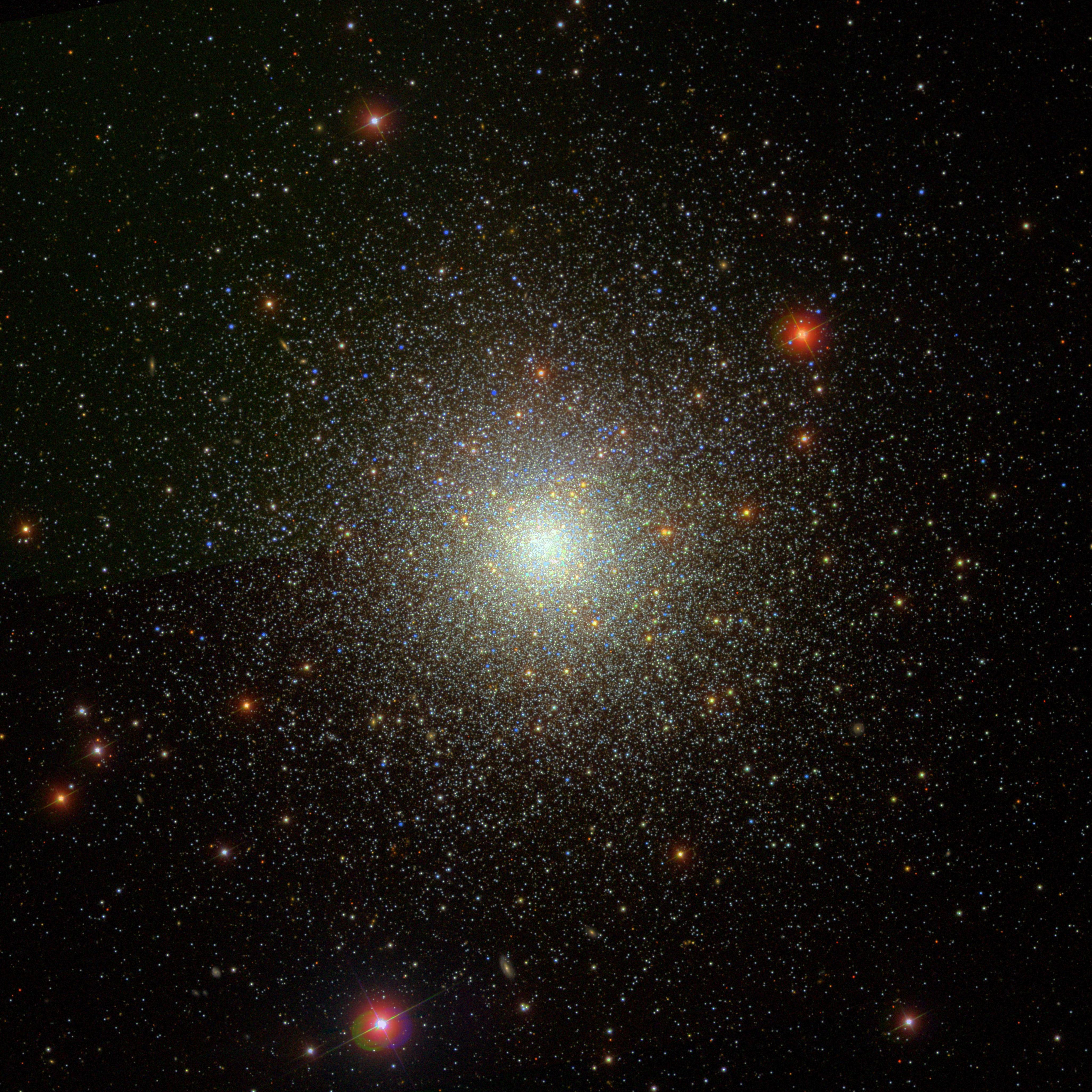 Angle of view: 24' x 24' (0.3515625" per pixel), north is up.